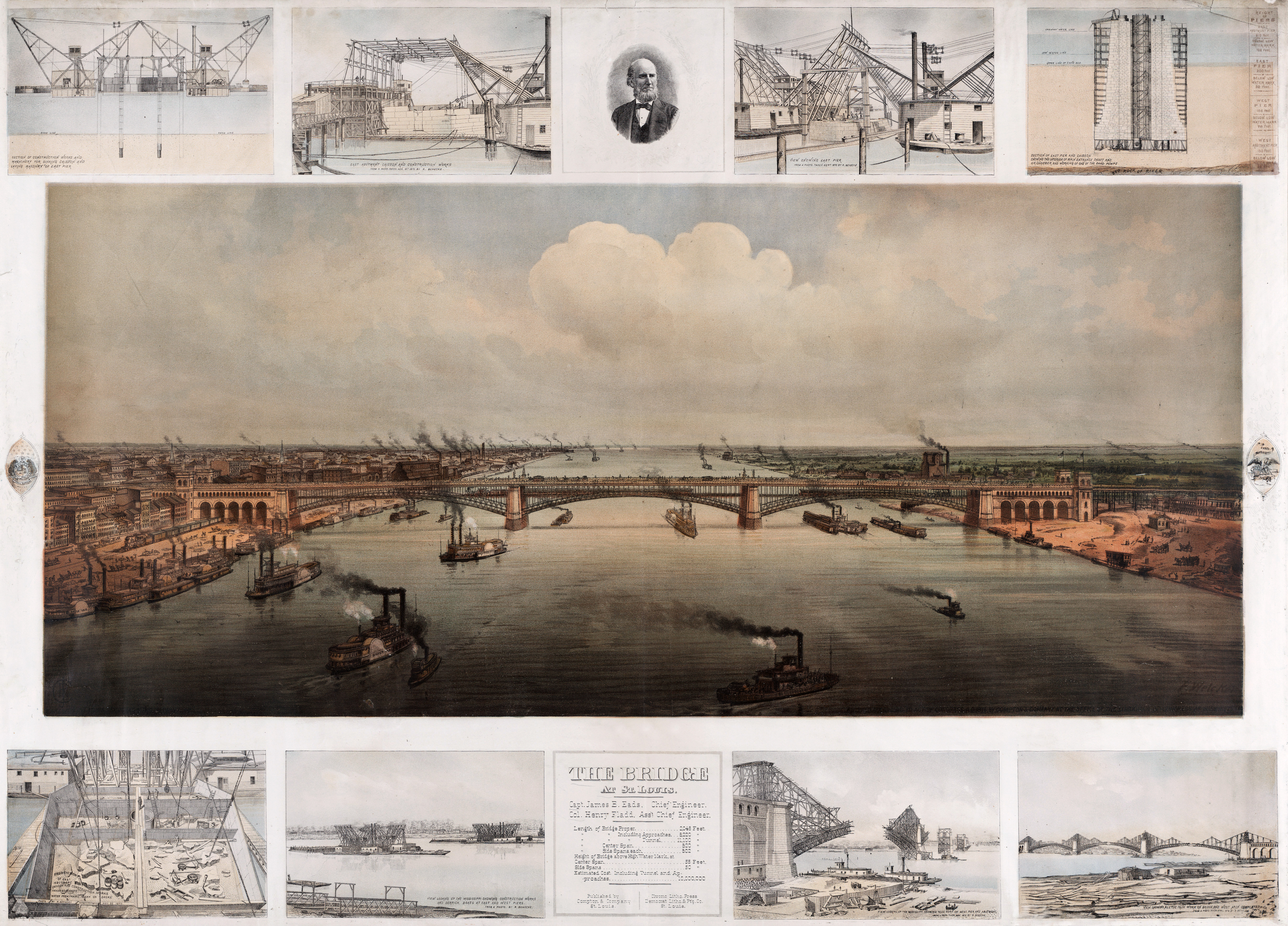 View of completed St. Louis Bridge, with steamboats in Mississippi River, surrounded by eight views of stages of bridge construction, based on photographs taken in 1874 by R. Benecke, sections of pier and machinery, and portrait of Capt. James B. Eads, chief engineer.